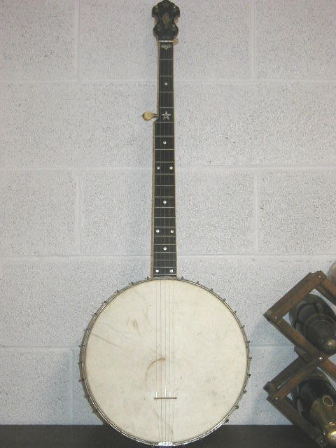 A.C. Fairbanks “Whyte Laydie No. 2” 5-string cello banjo Circa 1903, S/N 22924